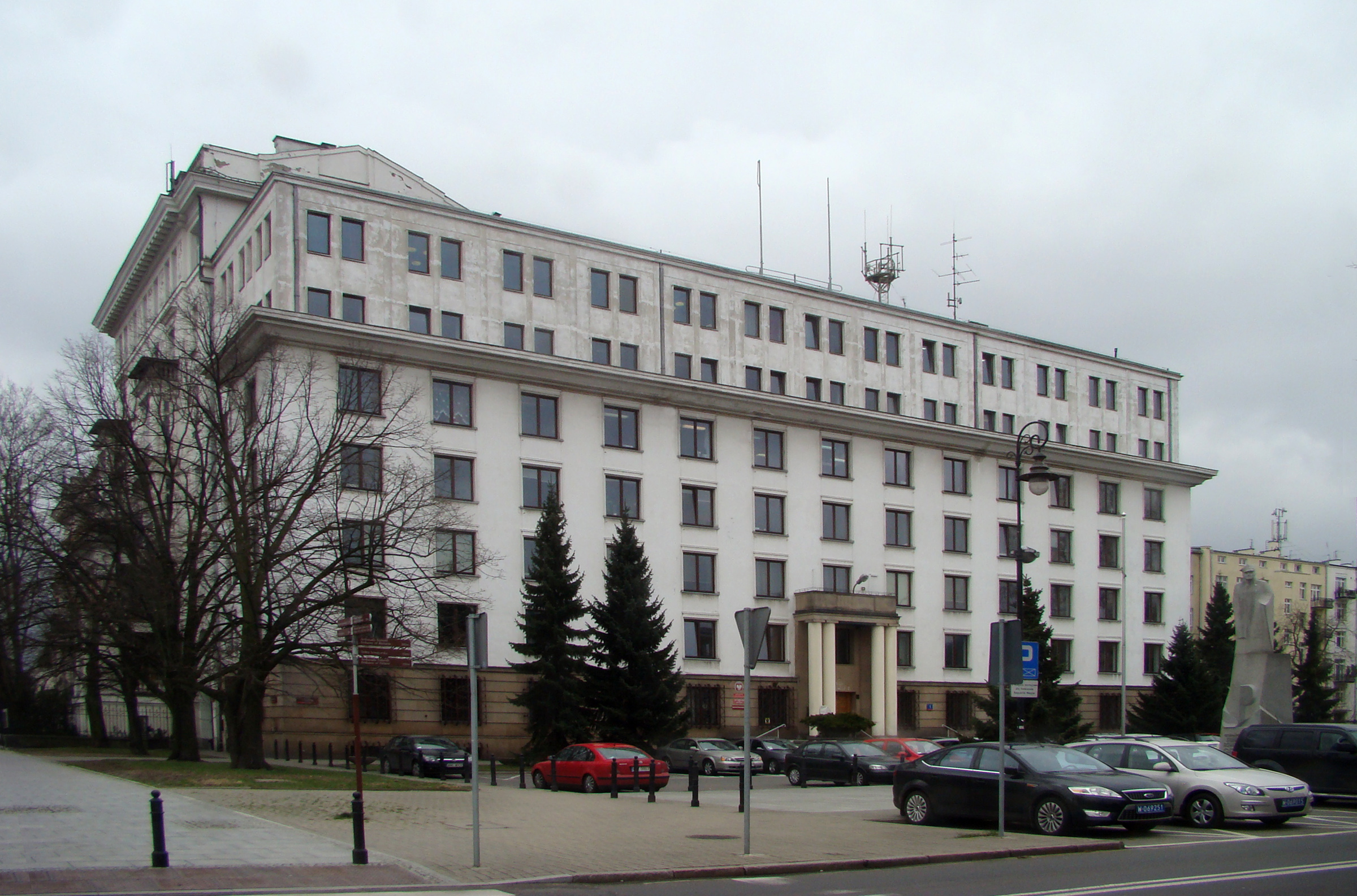 Chopina Street 1 - District Court building